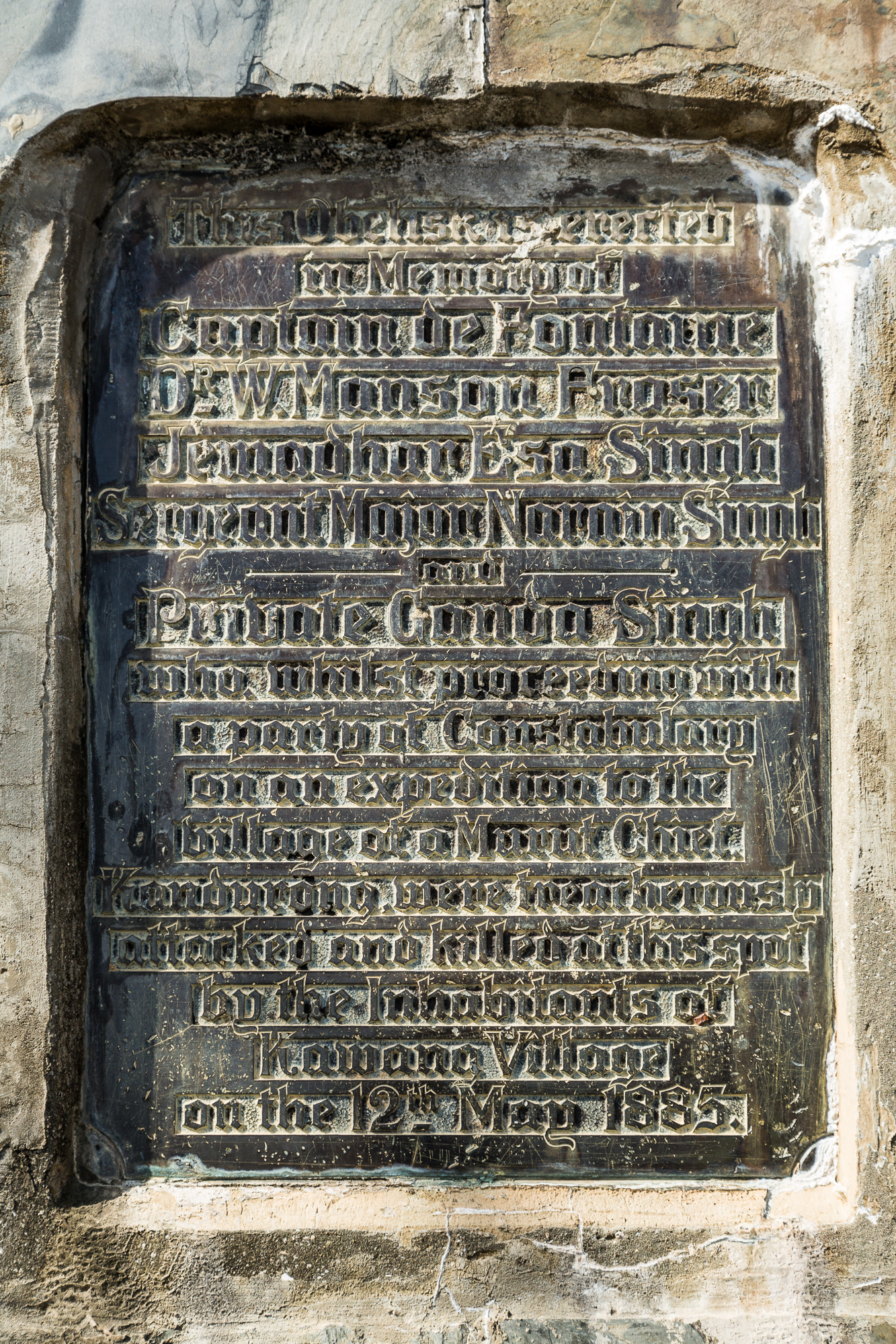 Kawang, Sabah: De Fontaine Memorial